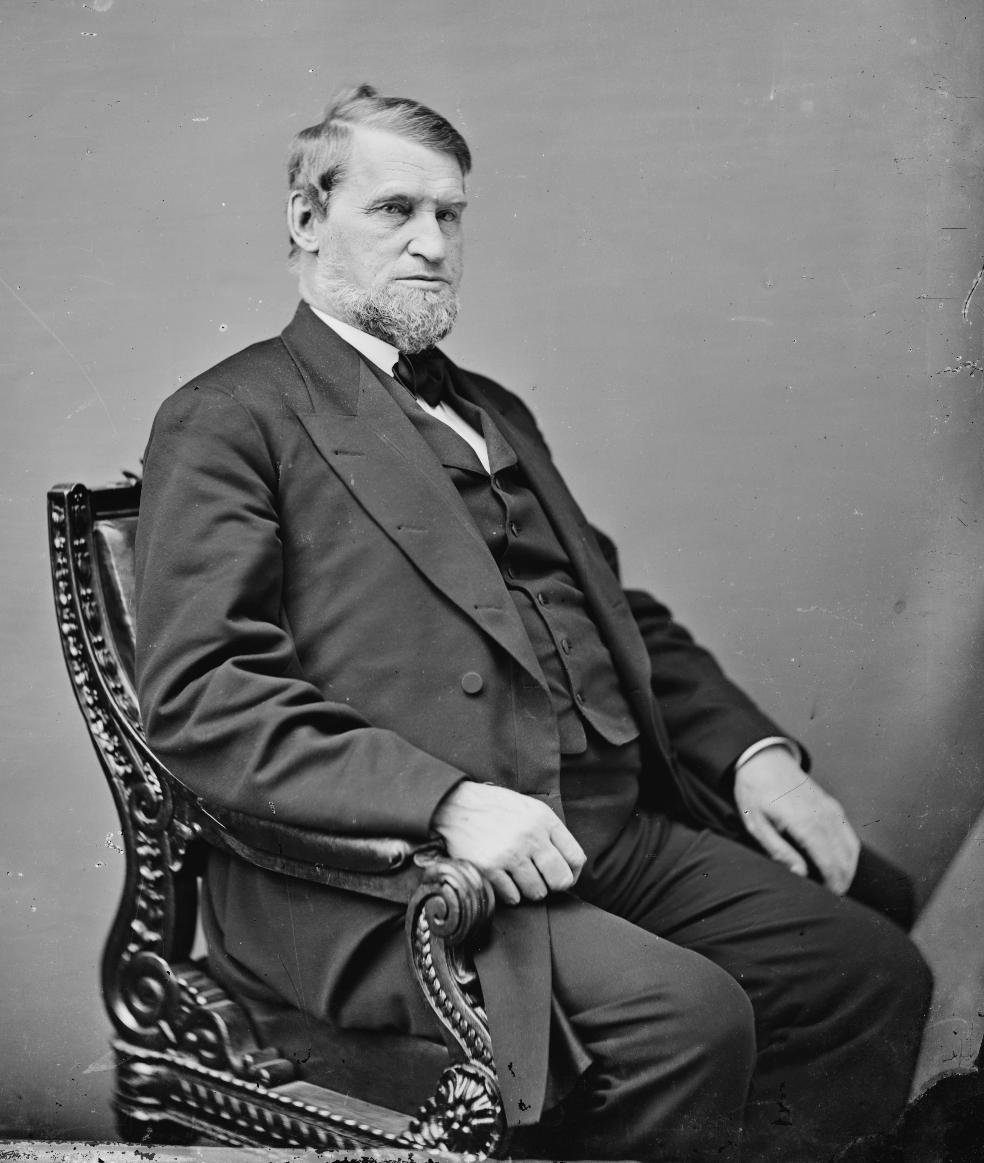 Oakes Ames. Library of Congress description: "Hon. Oakes Ames of Mass."